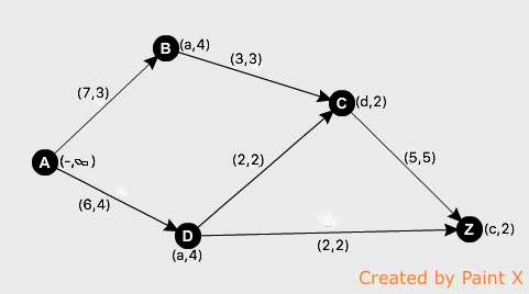 Slika 1.5